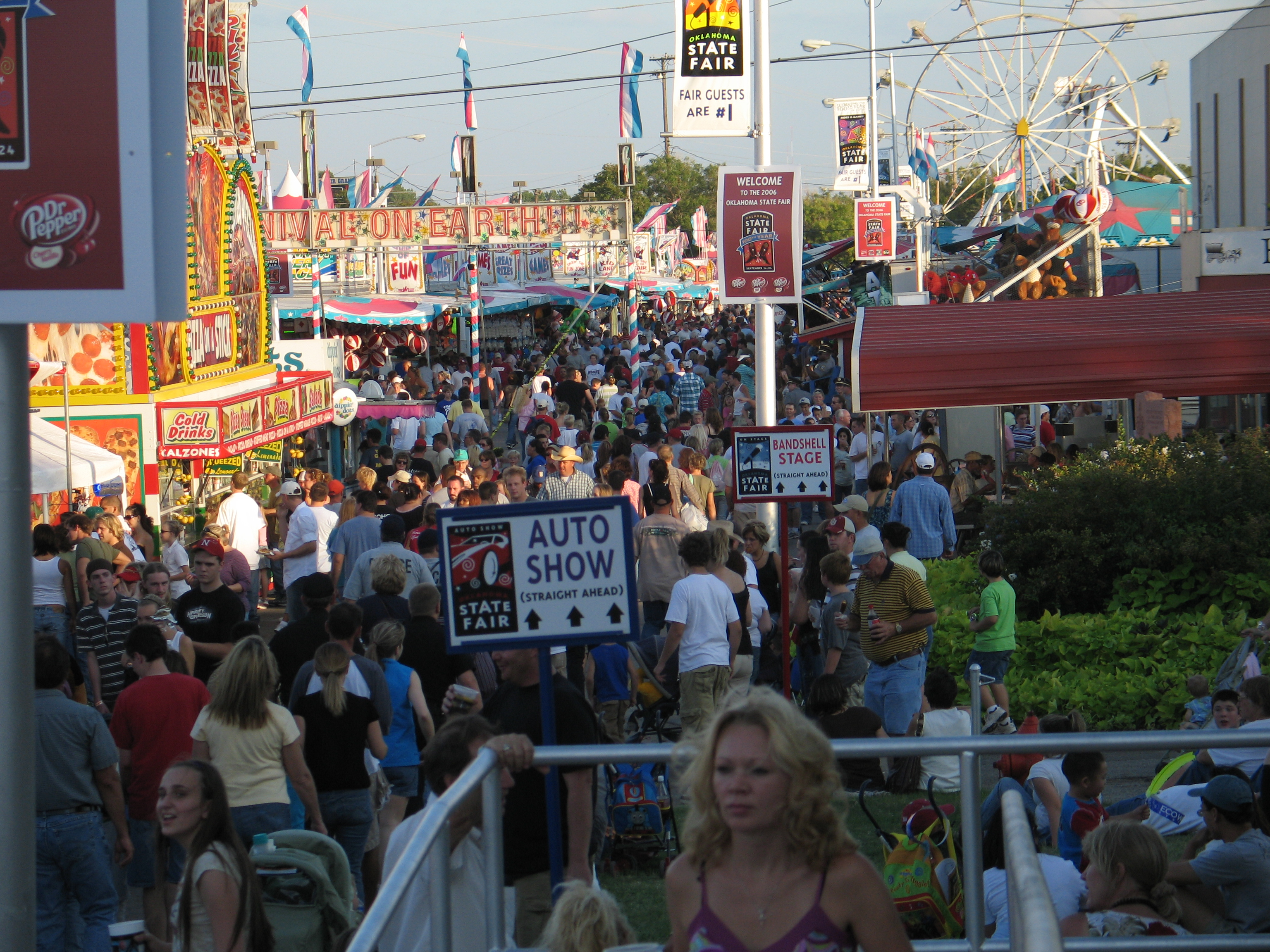 Midway at the Oklahoma State Fair 9/16/2006